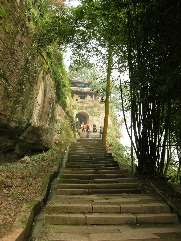 The cliffy road up to the front gate of Fishing Town,Hechuan,Chongqing,China.The photo was taken by Mr Chen Hualin on January 30, 2006.